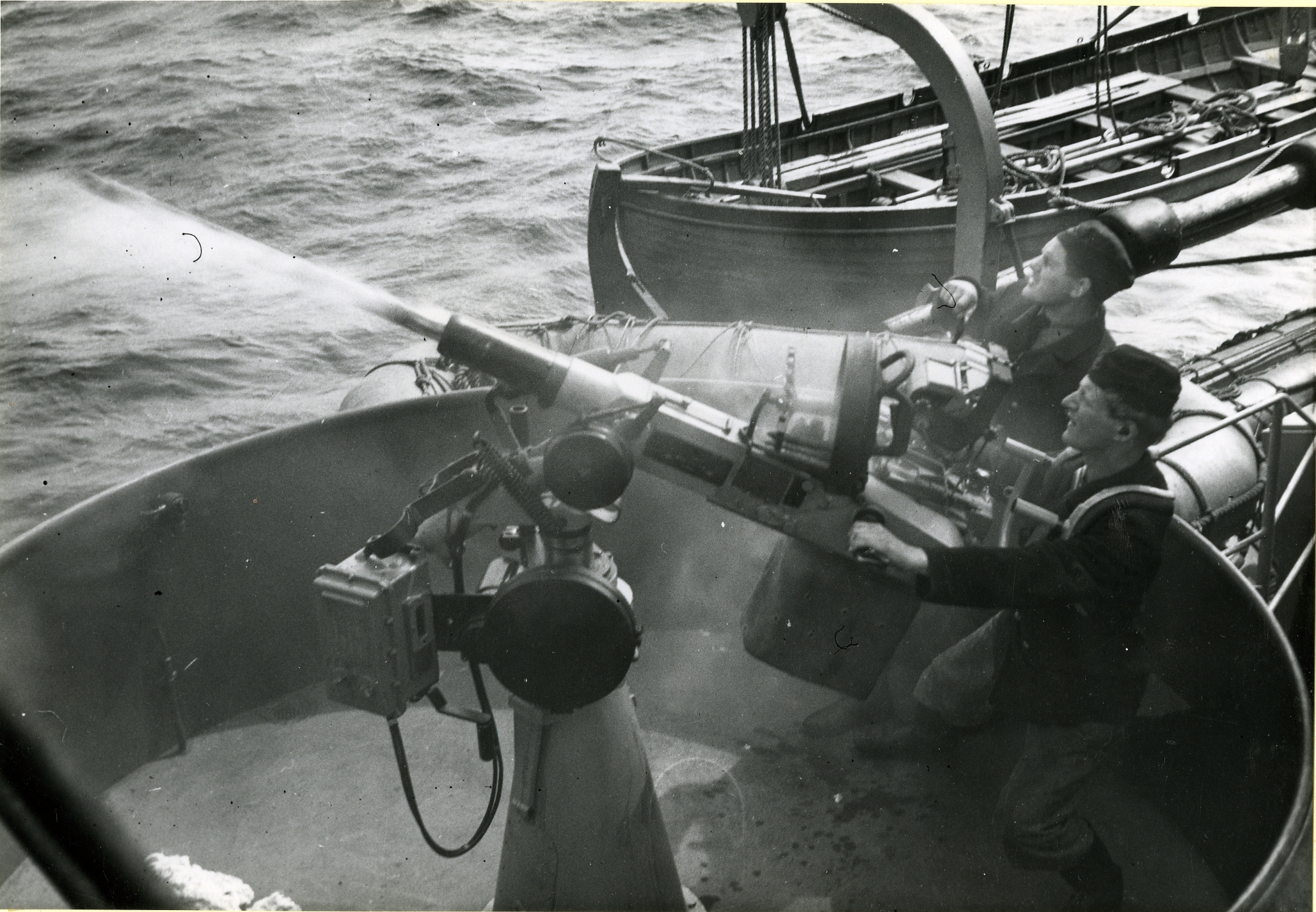 20 mm gun being fired onboard the Swedish destroyer HMS Öland.